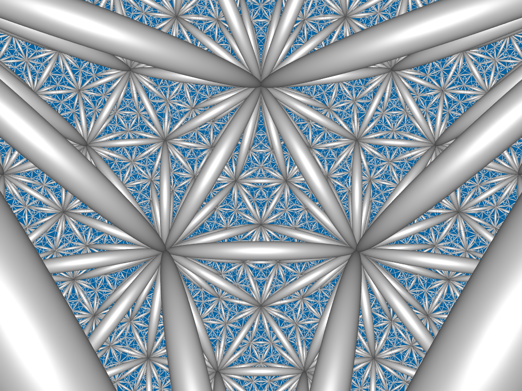 This is the regular {3,4,4} honeycomb in hyperbolic 3-space. The model is cell-centered in the Poincare Ball model, with the viewpoint then placed at the ball origin.